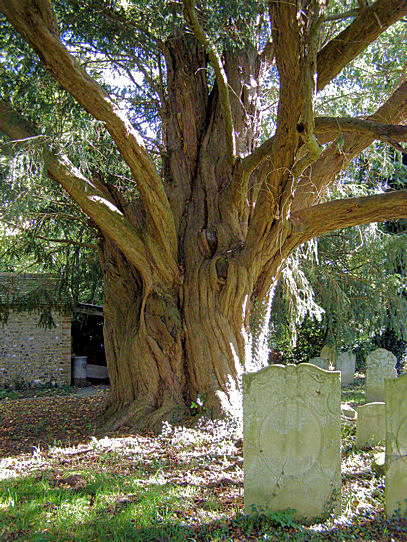 1000 year old yew tree, Walberton This ancient yew stands close to the main entrance to St Mary's churchyard. The church guide says it is over 1000 years old.